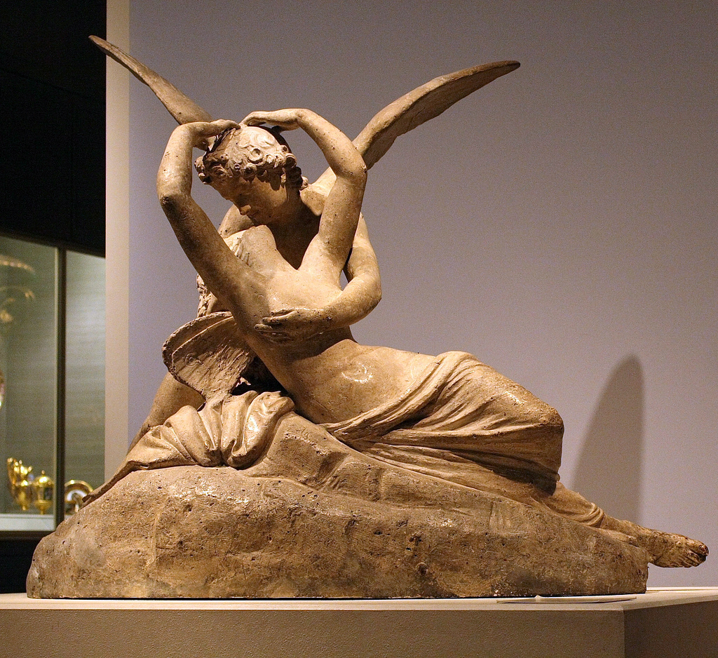 Eros and Psyche's kiss. I need your kiss, in the coldness of the night ,to worm my senses and my feelings. I want fall in your breathe and find the reason why humans can't live without air, as i can't live without your kisses.